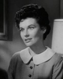 Dianne Foster in The Last Hurrah - trailer (cropped screenshot)